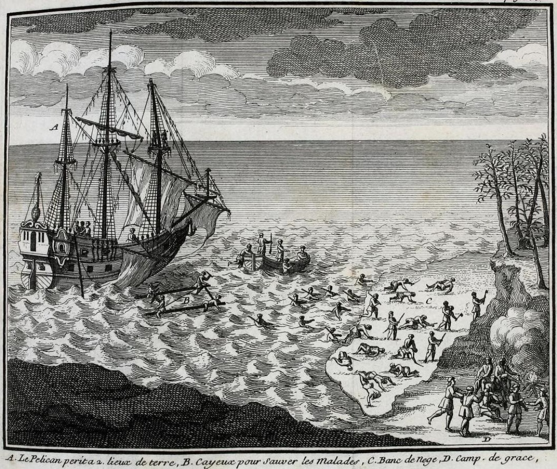 The French ship Pélican sinks following the Battle of Hudson's Bay (1697). From Histoire de l'Amérique septentrionale by Claude-Charles Bacqueville de La Potherie, Paris, Jean-Luc Nion and François Didot, 1722 (Library and Archives Canada, FC305 B326). Online. Cropped.